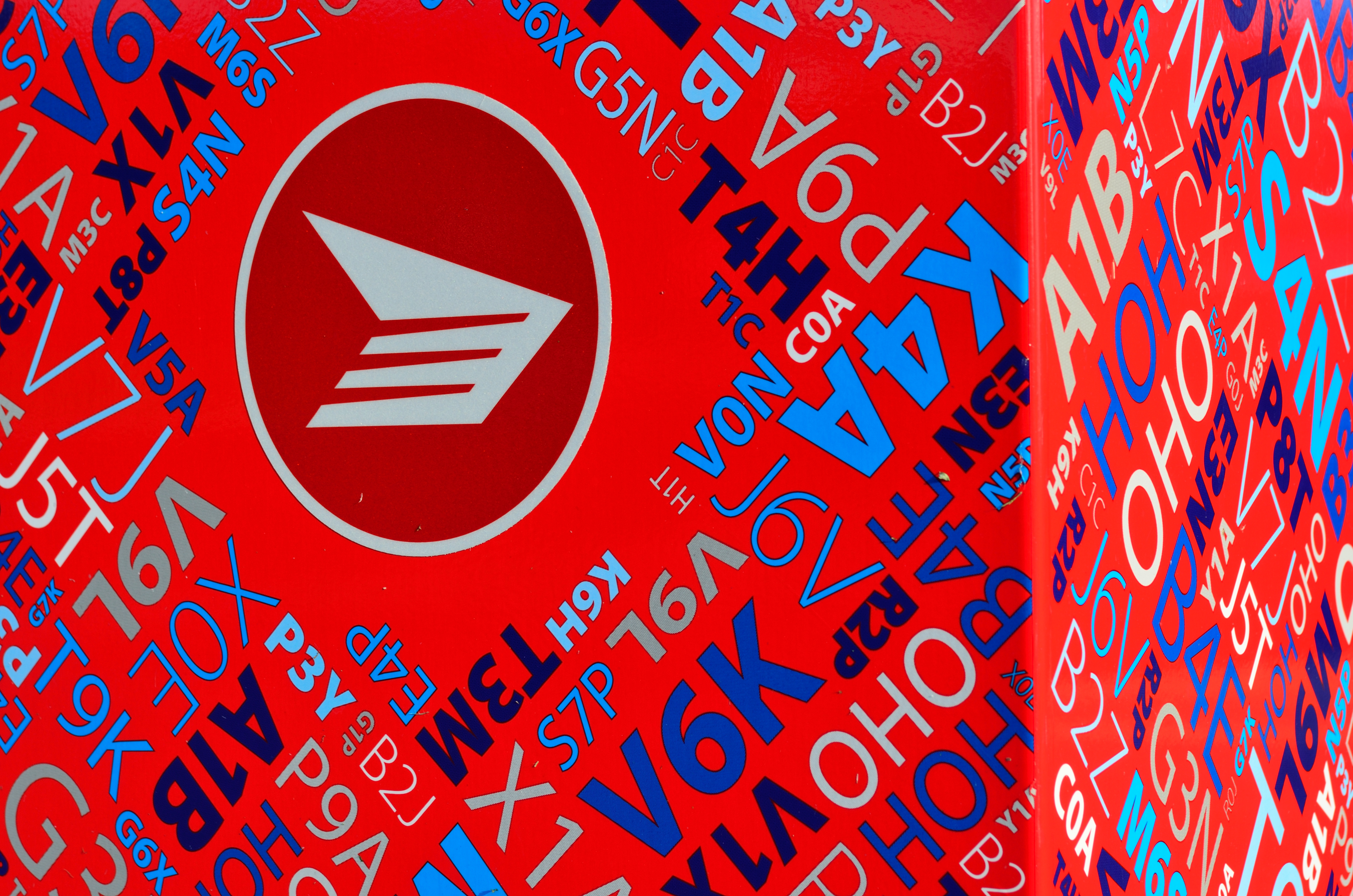 Closeup photo of a Canada Post mailbox.